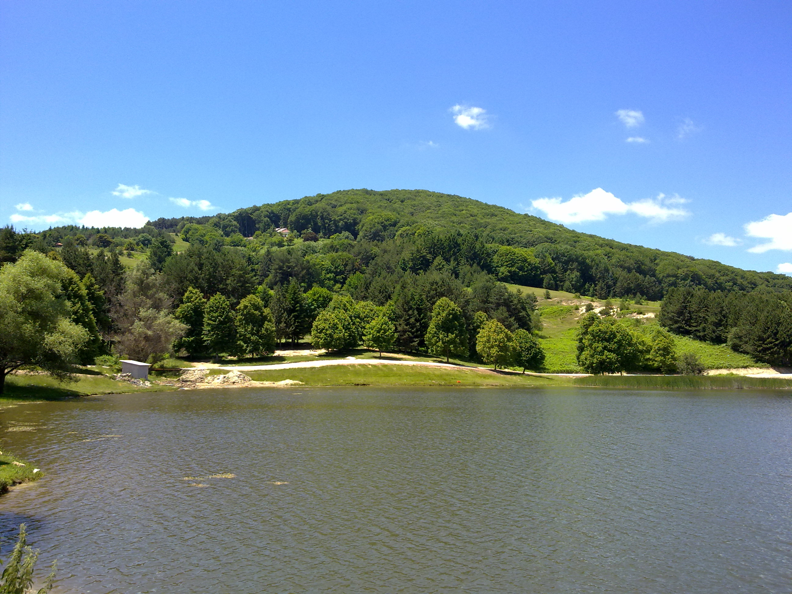 Lake Kruševo at day